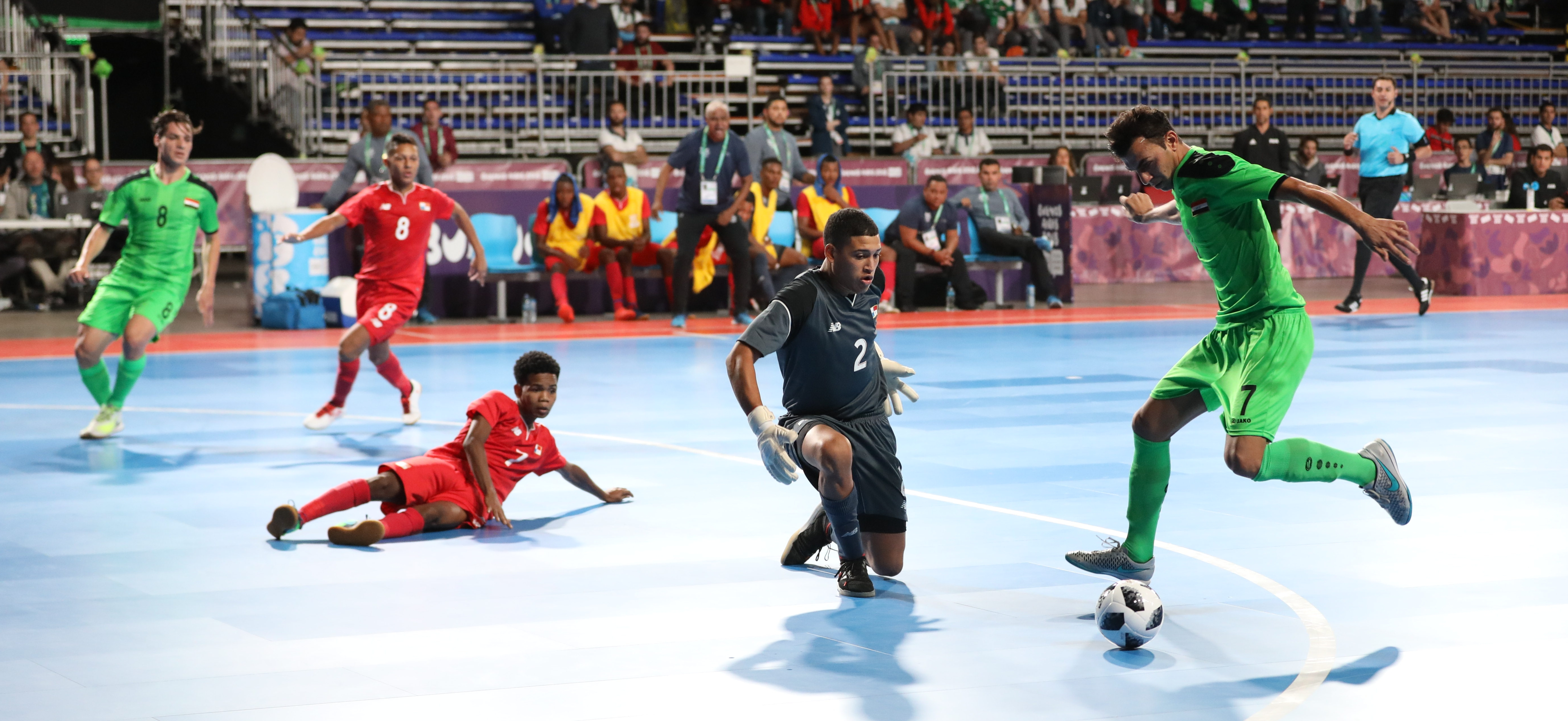 Futsal, Boys First Round: Panama vs. Iraq (1:1)